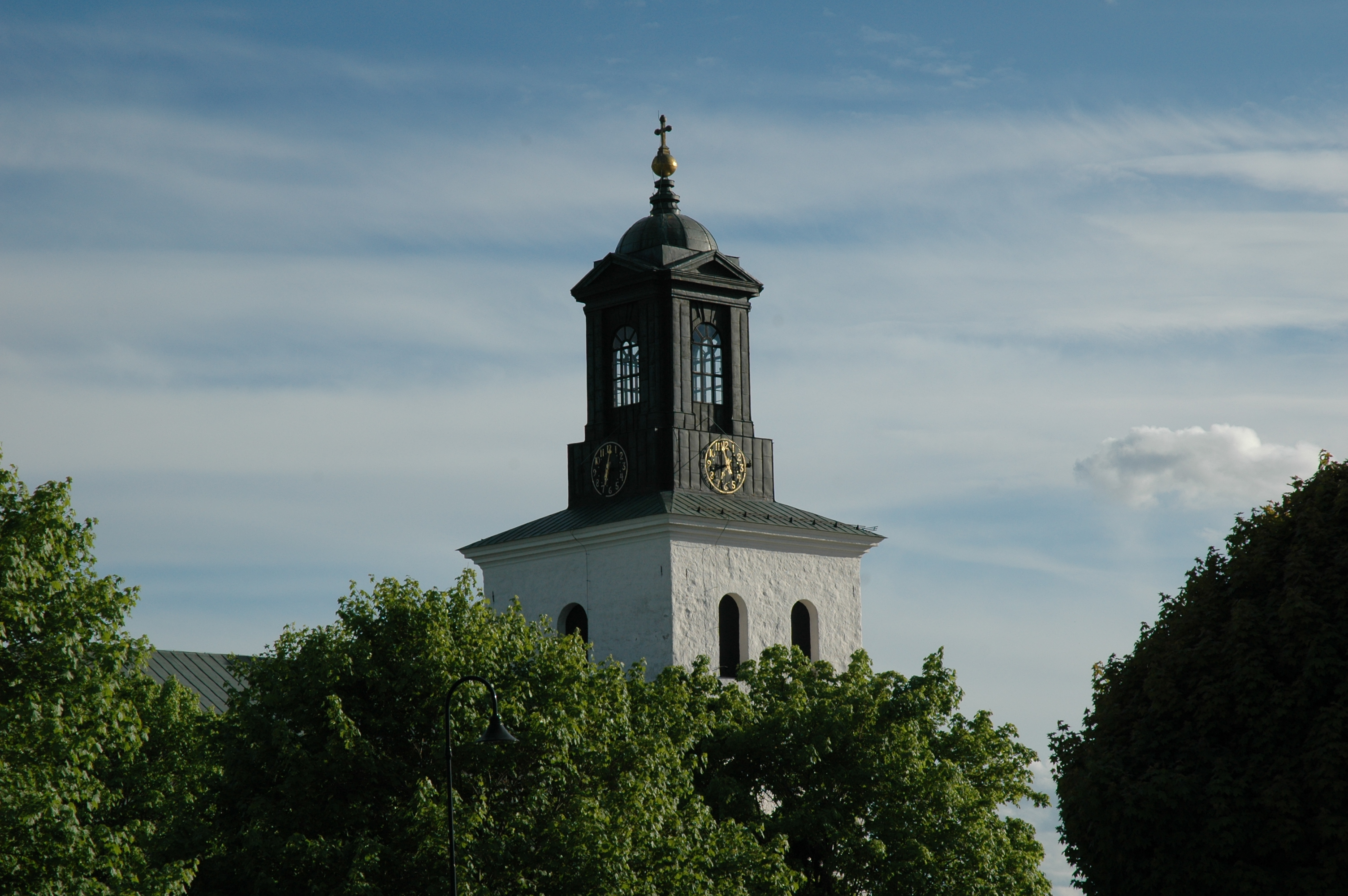 Pictures from the "Bergslagssafari" that Swedish Wikipedia performed between 4th and 6th of June 2010.